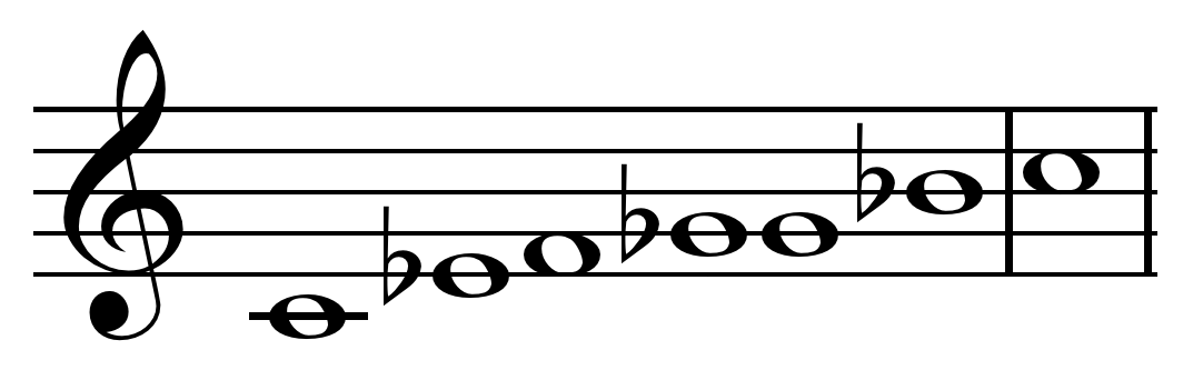 Created by User:Hyacinth using Sibelius. This was intended for use with the other images on Hexatonic scale. Category:Music images